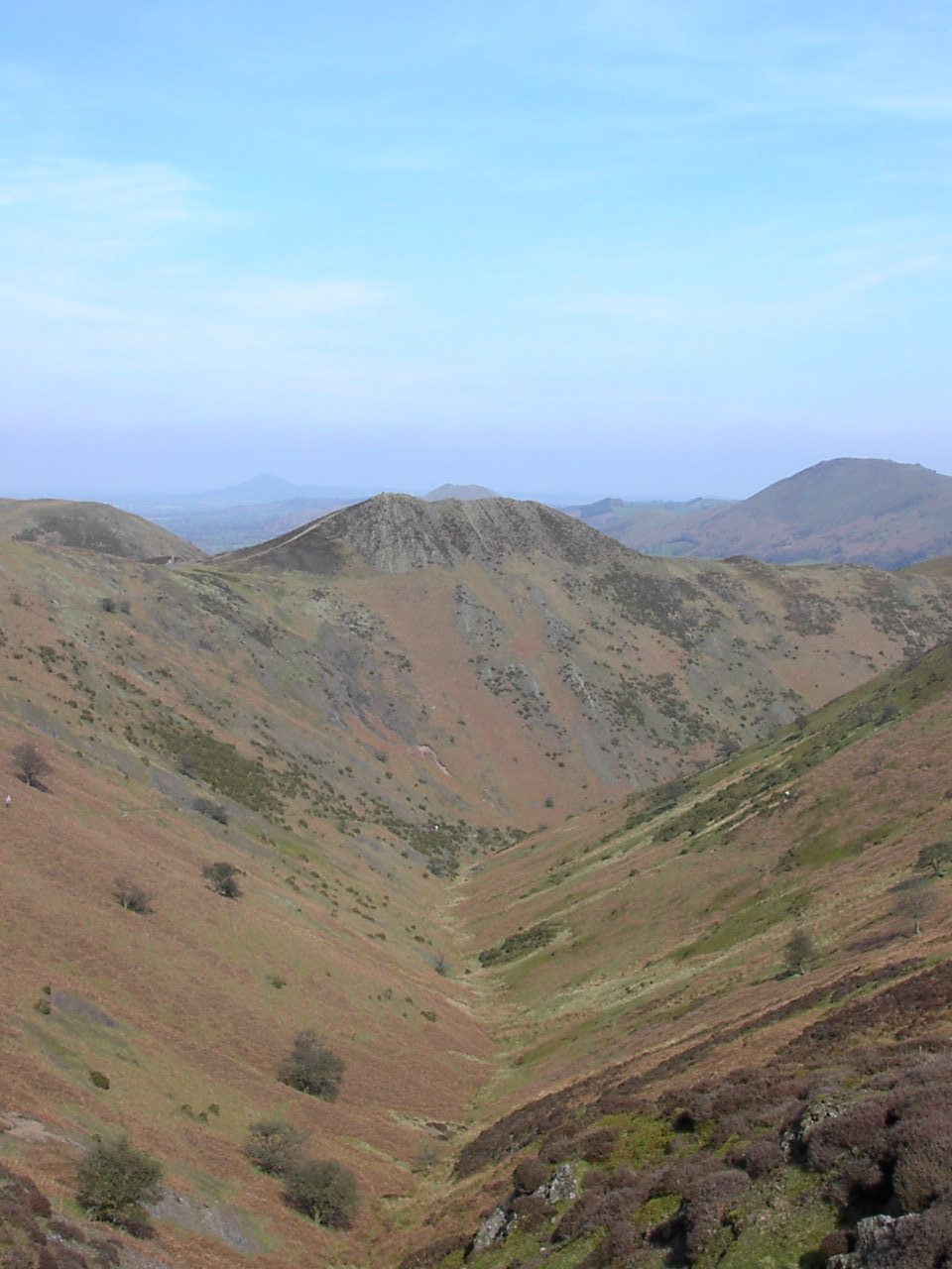 Self made: A view of the Long Mynd in Shropshire, looking down Townsbrook Valley towards Burway Hill and Caer Caradoc. Taken by Sean Hattersley on 6th of April 2007.